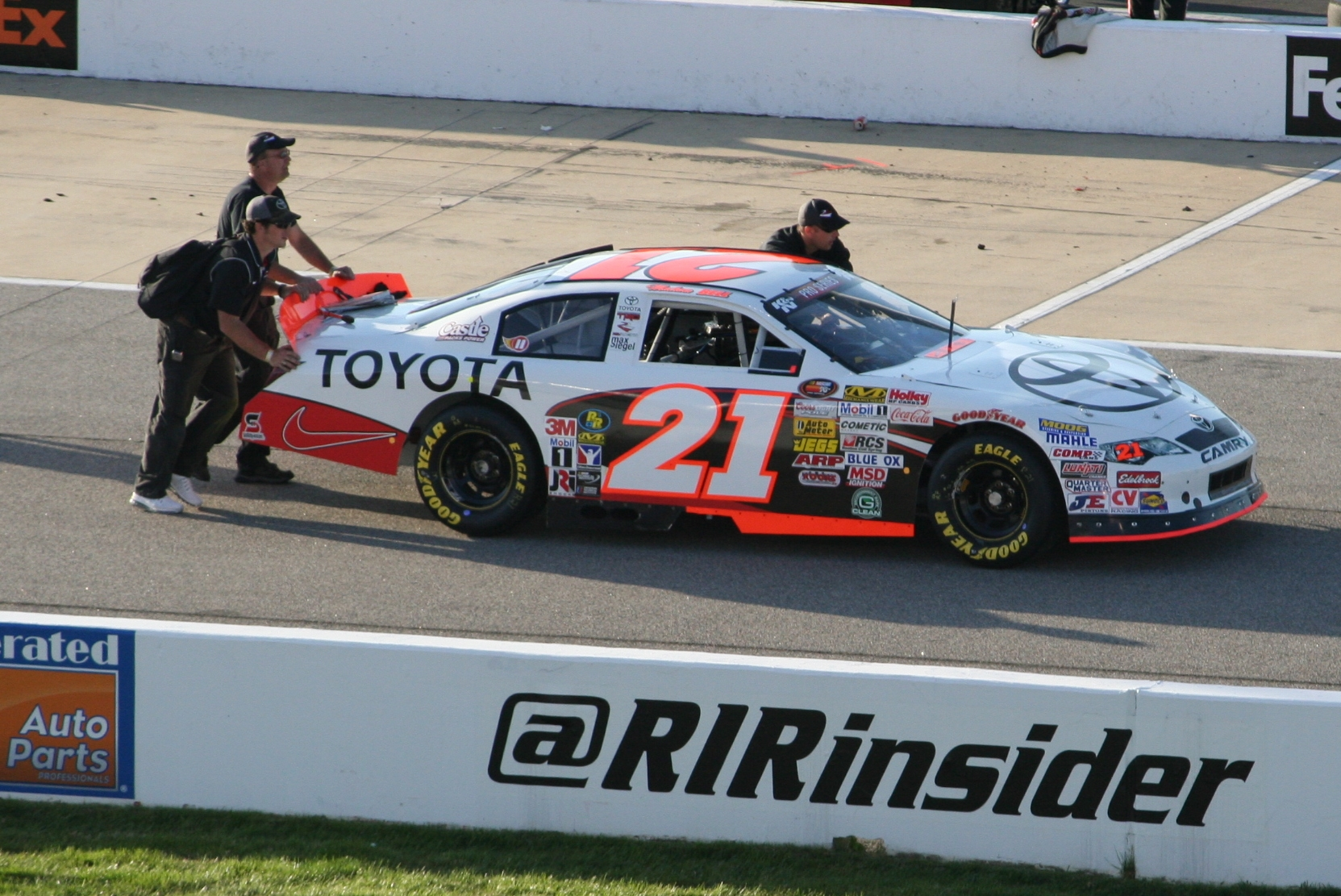 Mackena Bell's No. 21 Toyota is pushed on pit road at Richmond International Raceway before the NASCAR K&N Pro Series East Blue Ox 100, April 25 2013.